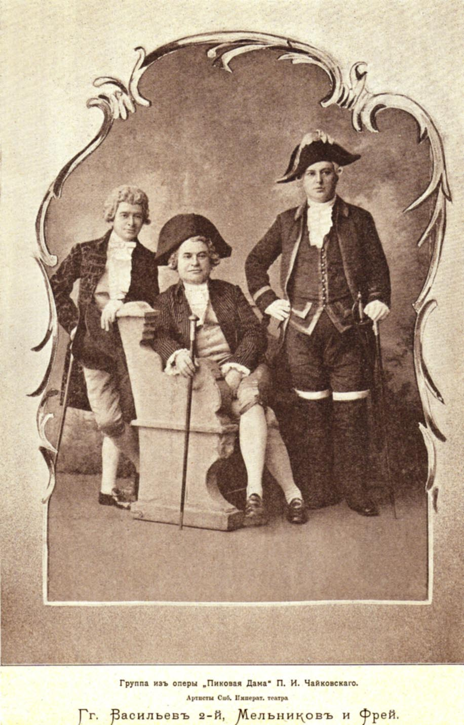 Postcard - russian opera singers Vasily Vasiliev (Vasiliev the 2nd; 1837-1891), Melnikov, Yalmar Frei (born 1856) in opera "Pique Dame" by Tchaikovsky